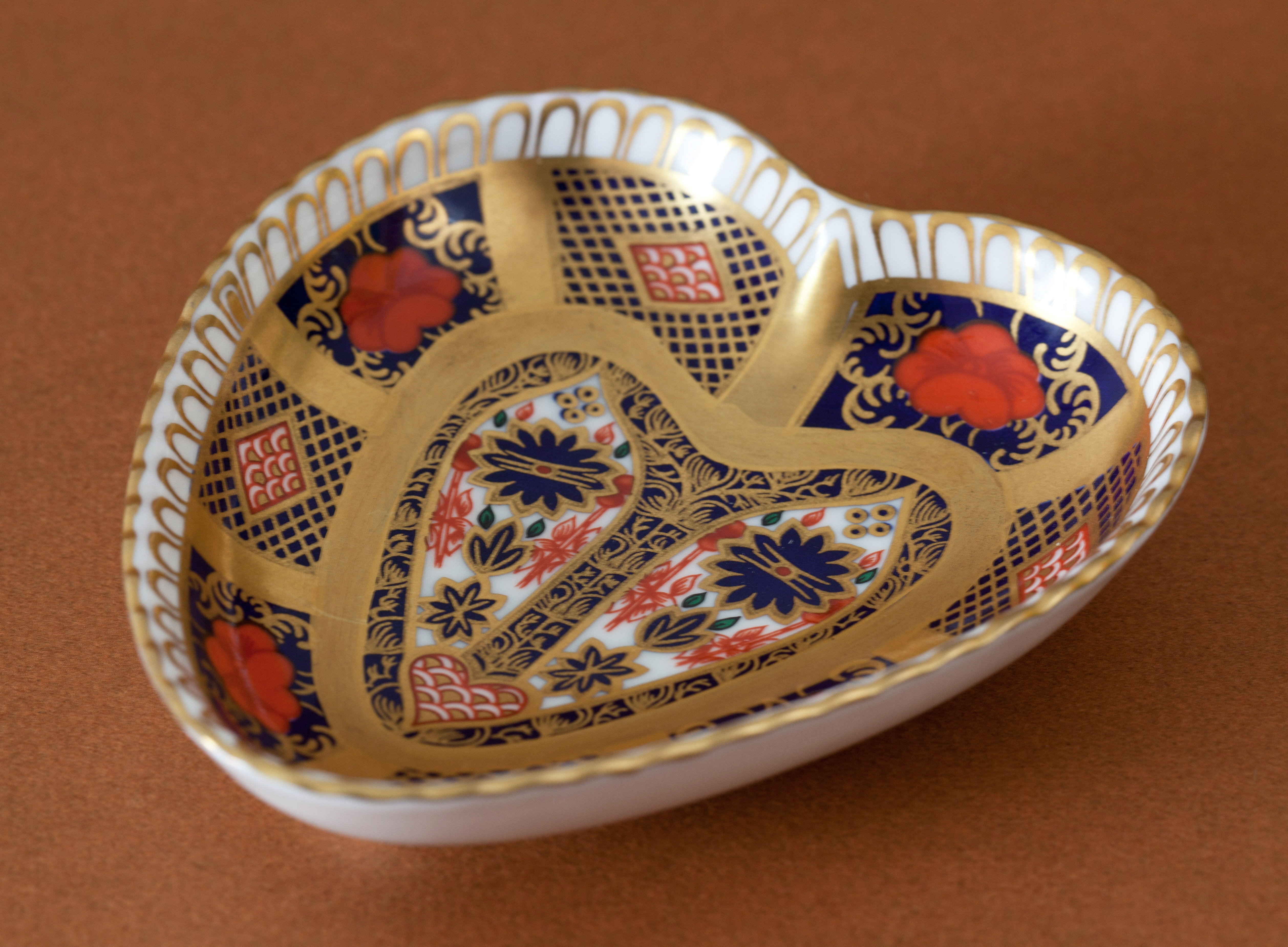 Crown Derby heart shaped dish. Canon 5D Mk II with a Canon EF 100mm f/2.8L Macro IS USM lens.